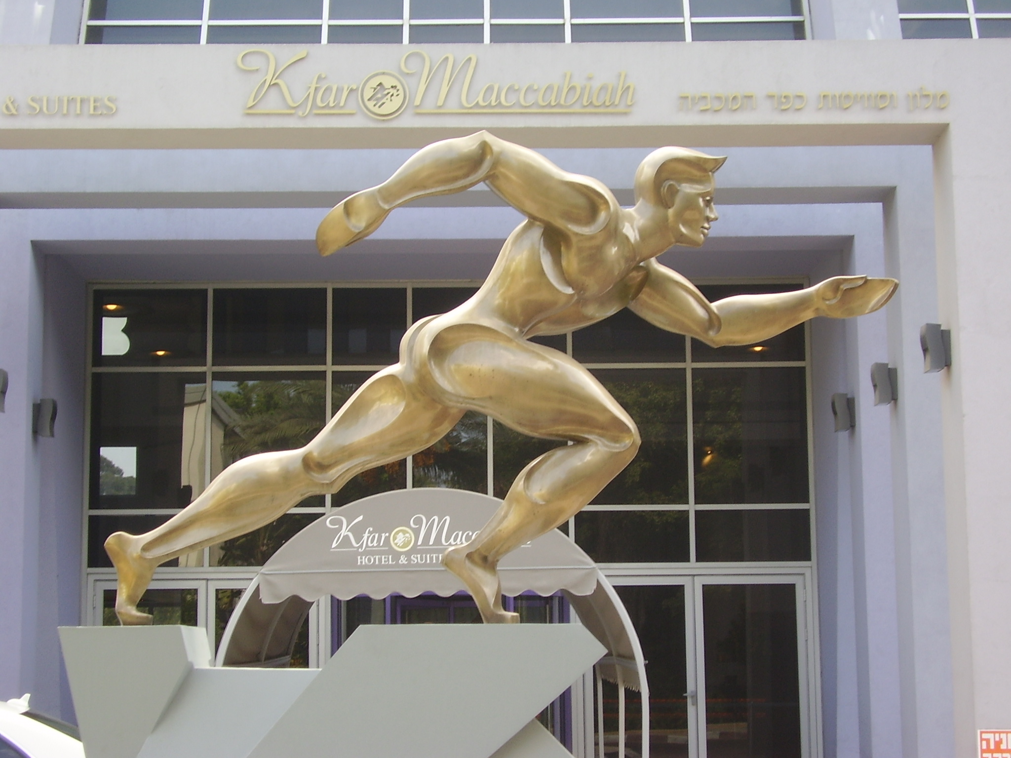 Athlete statue in Kfar Hamaccabiah